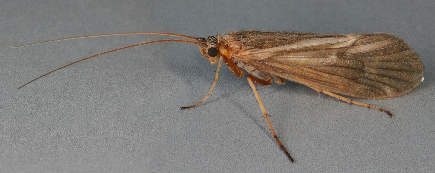 Drusus annulatus, Limnephilidae, Minera Quarry, North Wales, Sept 2012